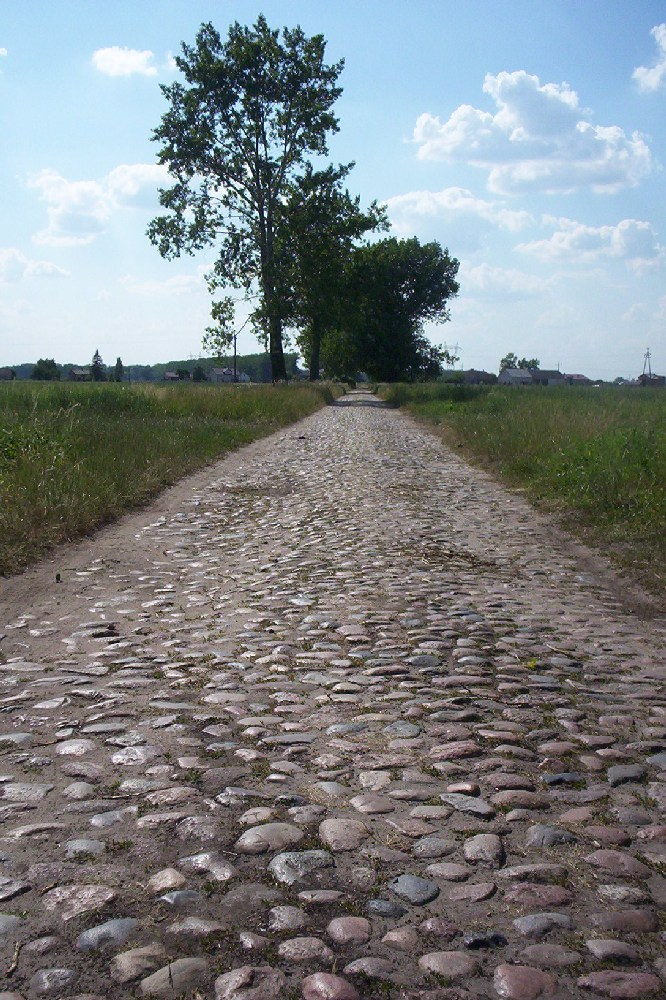 Cobblestoned road from Guzów to Oryszew (Masovia, Poland). It is 2.4 kilometres long.